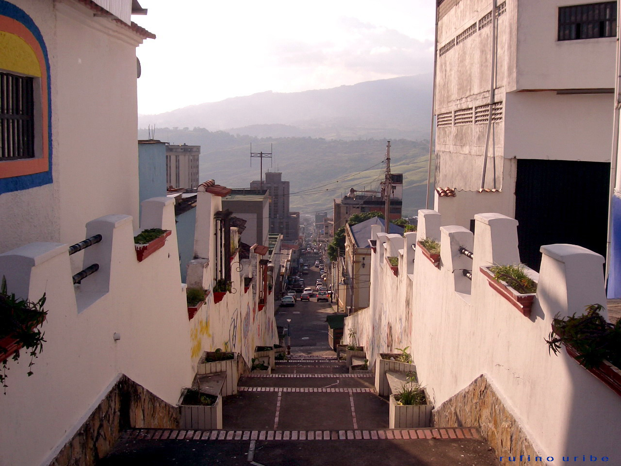 Stairway in San Cristóbal, Tachira, Venezuela